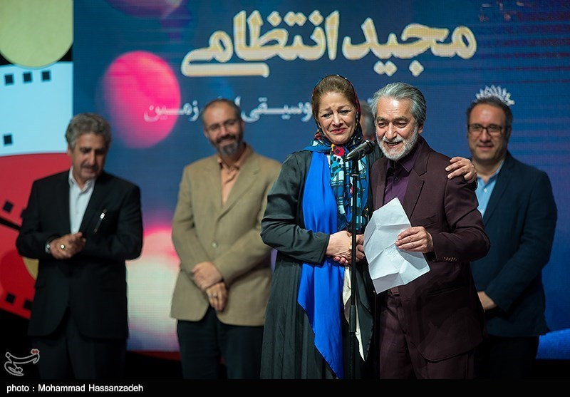 Commemoration of Majid Entezai (2017)